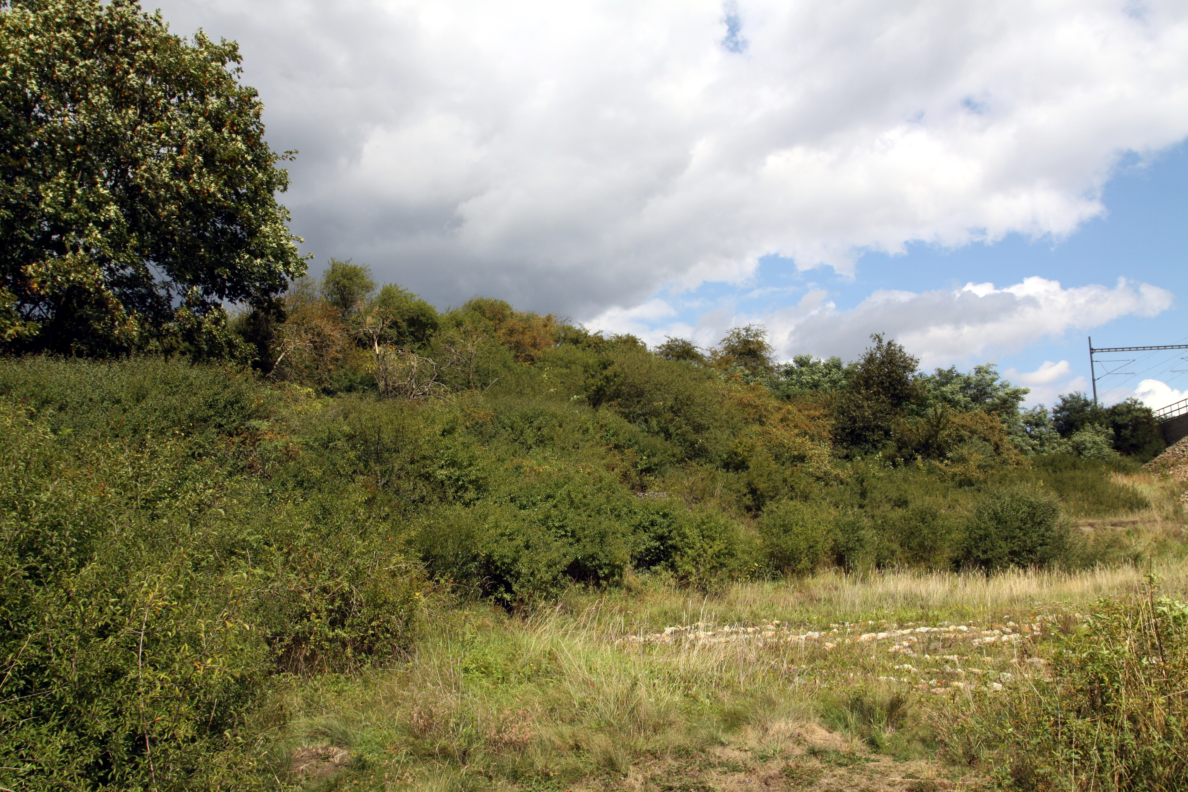 Natural monument Štěpánský rybník close to Mýto town, Rokycany District, Czech Republic - Google Maps - Google Earth